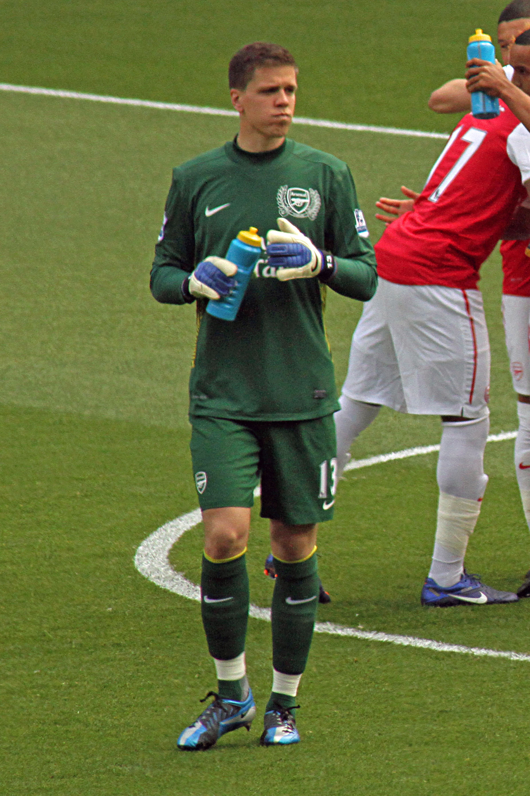 Arsenal goalkeeper Wojciech Szczęsny warm up before a match with Chelsea.